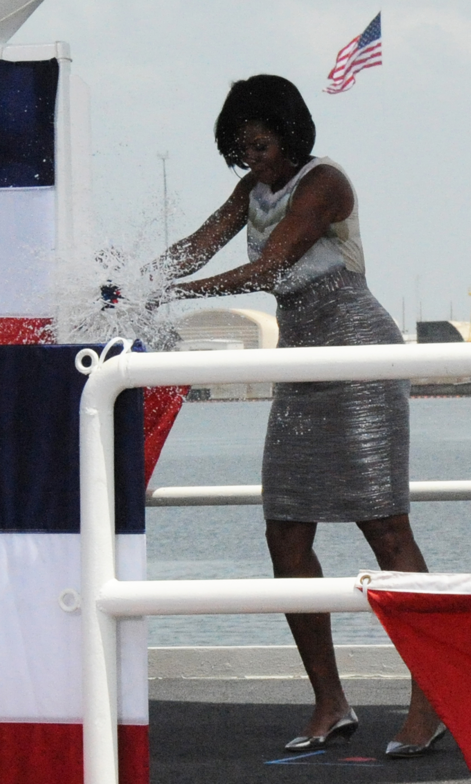 First lady Michelle Obama christens the USCGC Stratton (WMSL 752) in Pascagoula, Miss., July 23, 2010. Stratton is the third of eight planned National Security Cutters being built at Northrop Grumman Shipbuilding in Pascagoula for the U.S. Coast Guard. (DoD photo by Petty Officer 3rd Class Casey J. Ranel, U.S. Coast Guard/Released)